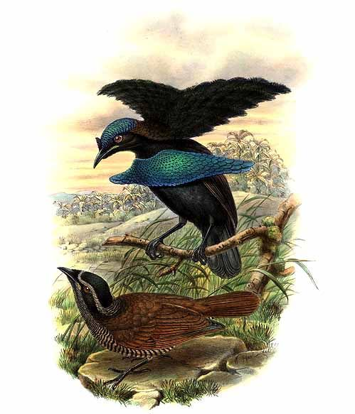 Lophorina minor